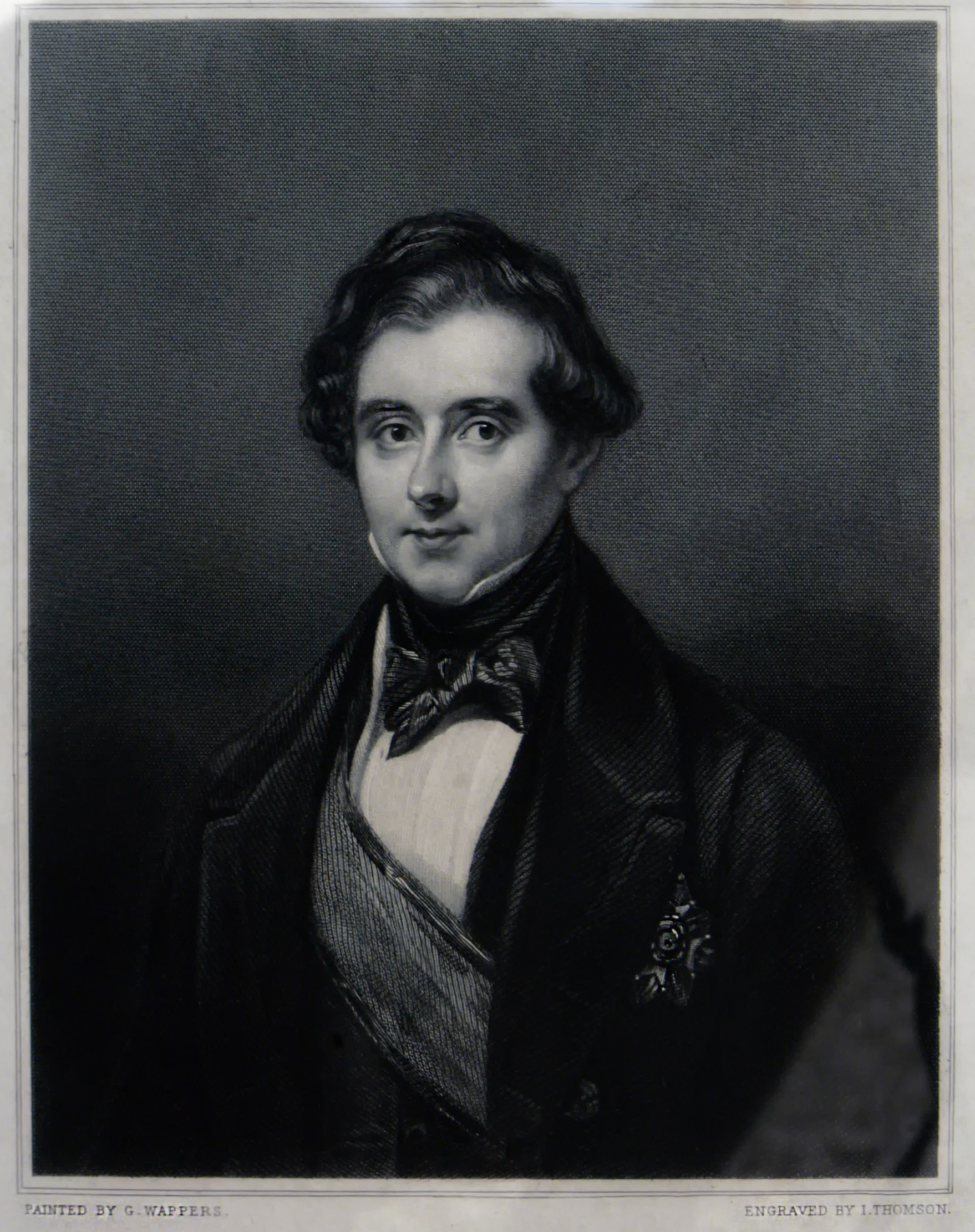 My photo (Rodolph (talk) 22:26, 9 August 2013 (UTC)) of Sylvain Van de Weyer engraved by I. Thomson after a painting by Wappers.